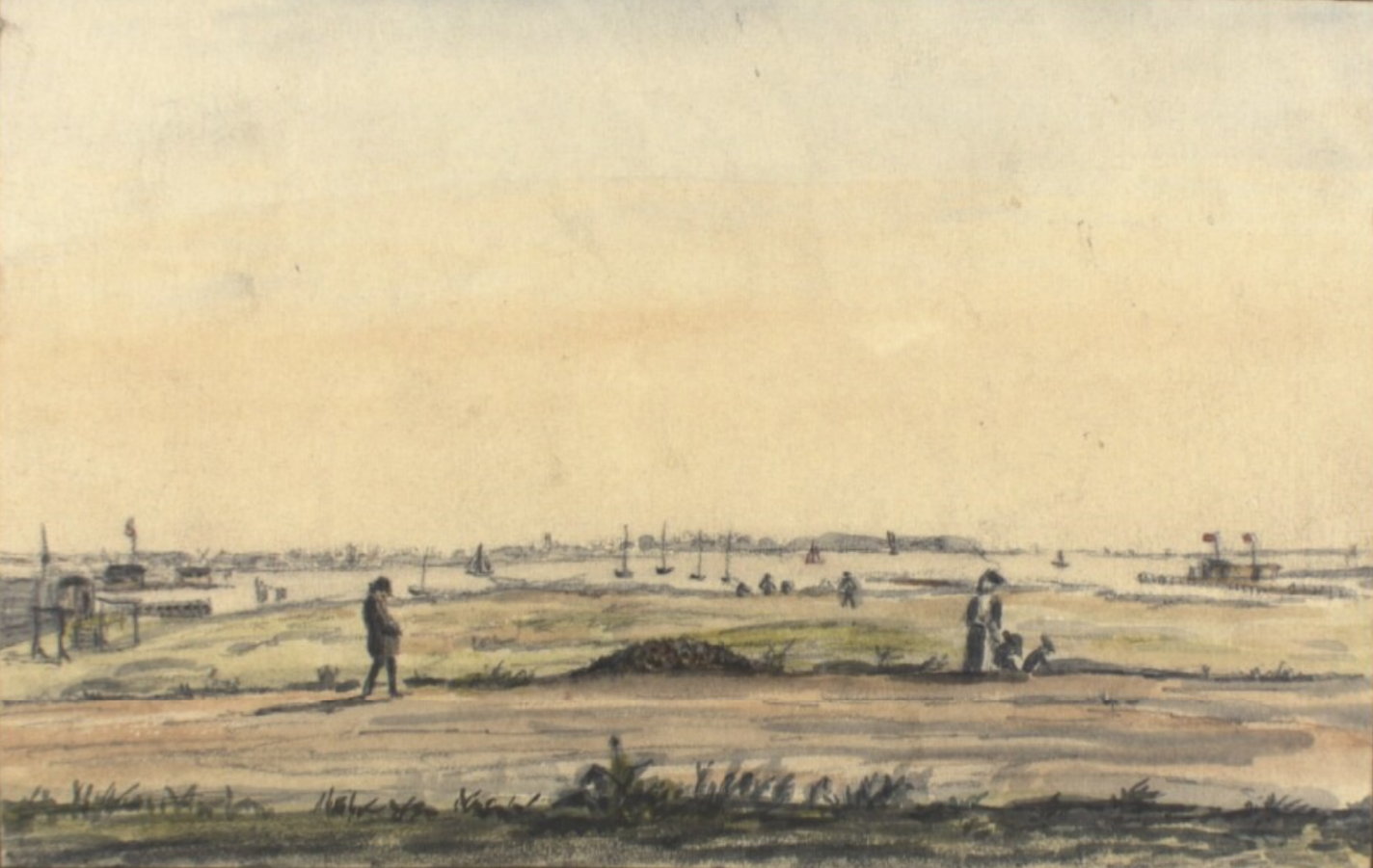 The extension of Stormgaden (Gl. Jernbane) on 27 June 1884